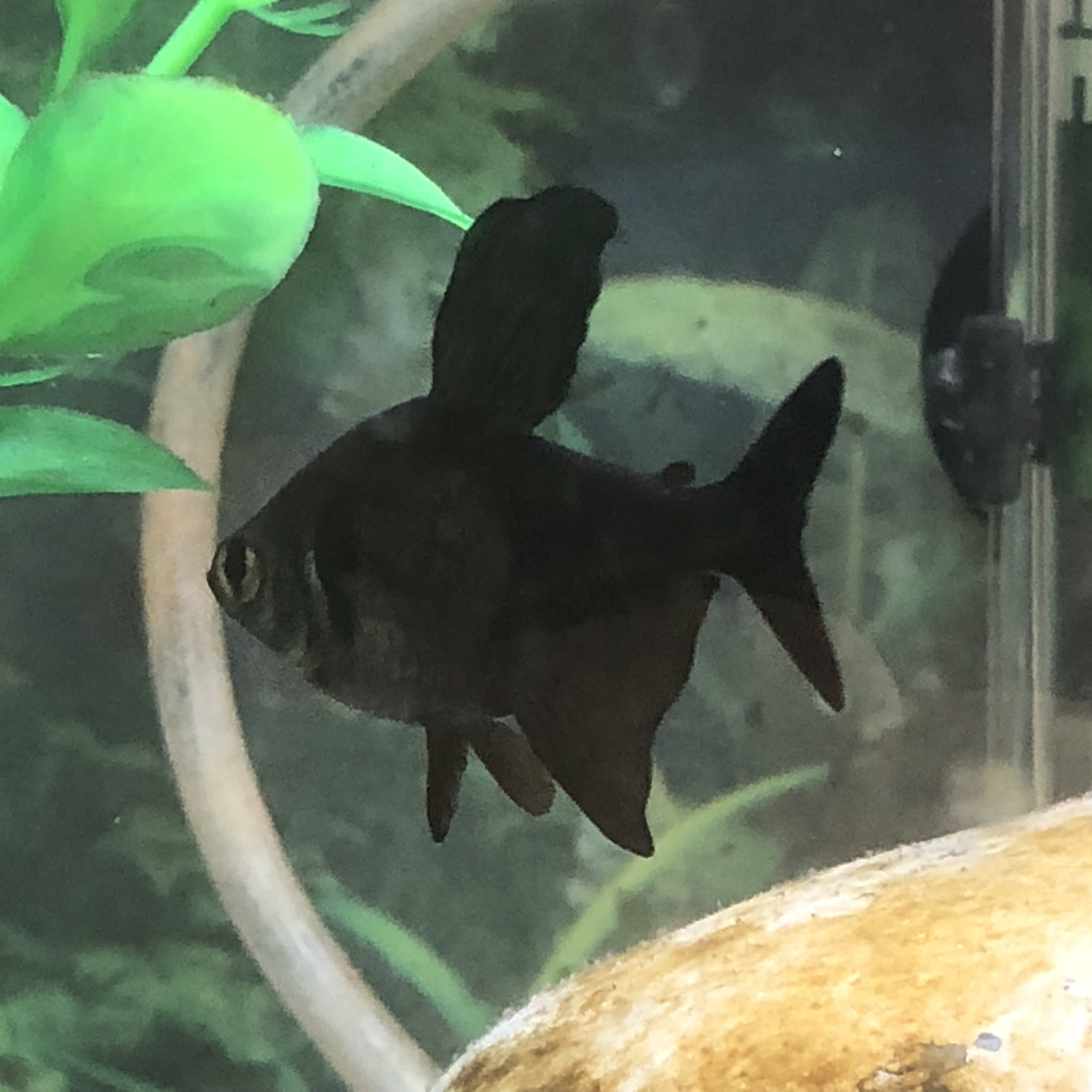 Male Black Phantom Tetra with fins fully extended